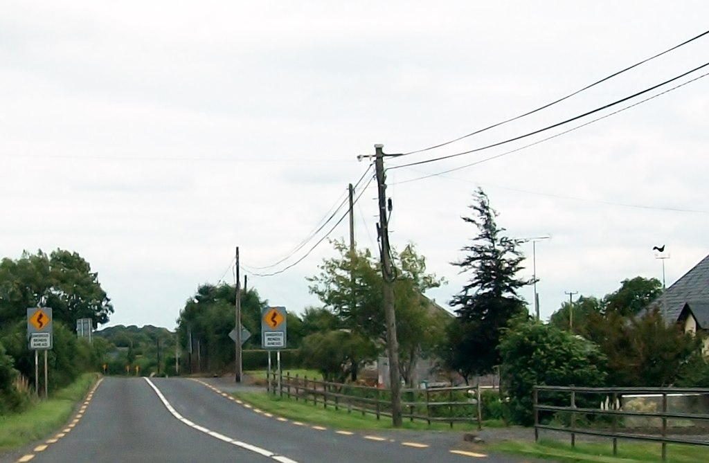 The N52 approaching a series of dangerous bends west of Killynon Cooke